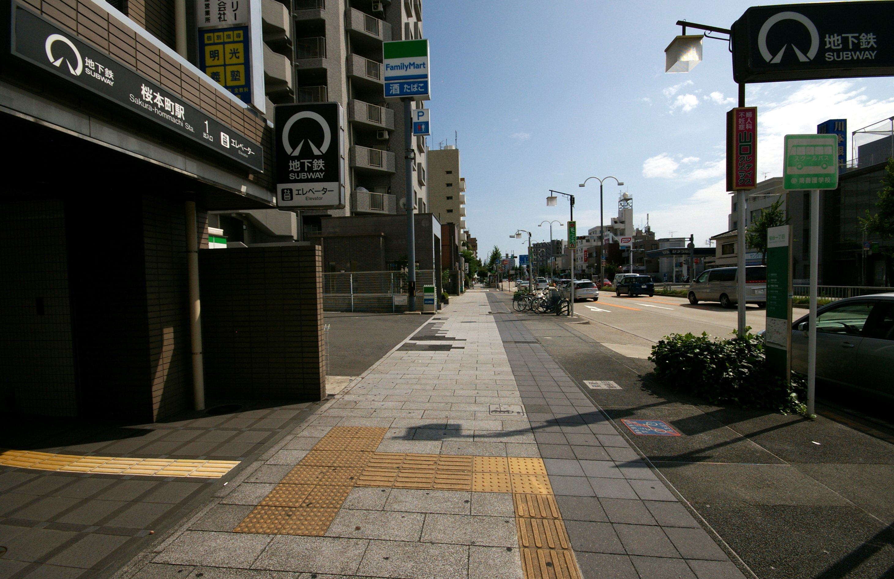 Nagoya Sakura-hommachi Subway Station